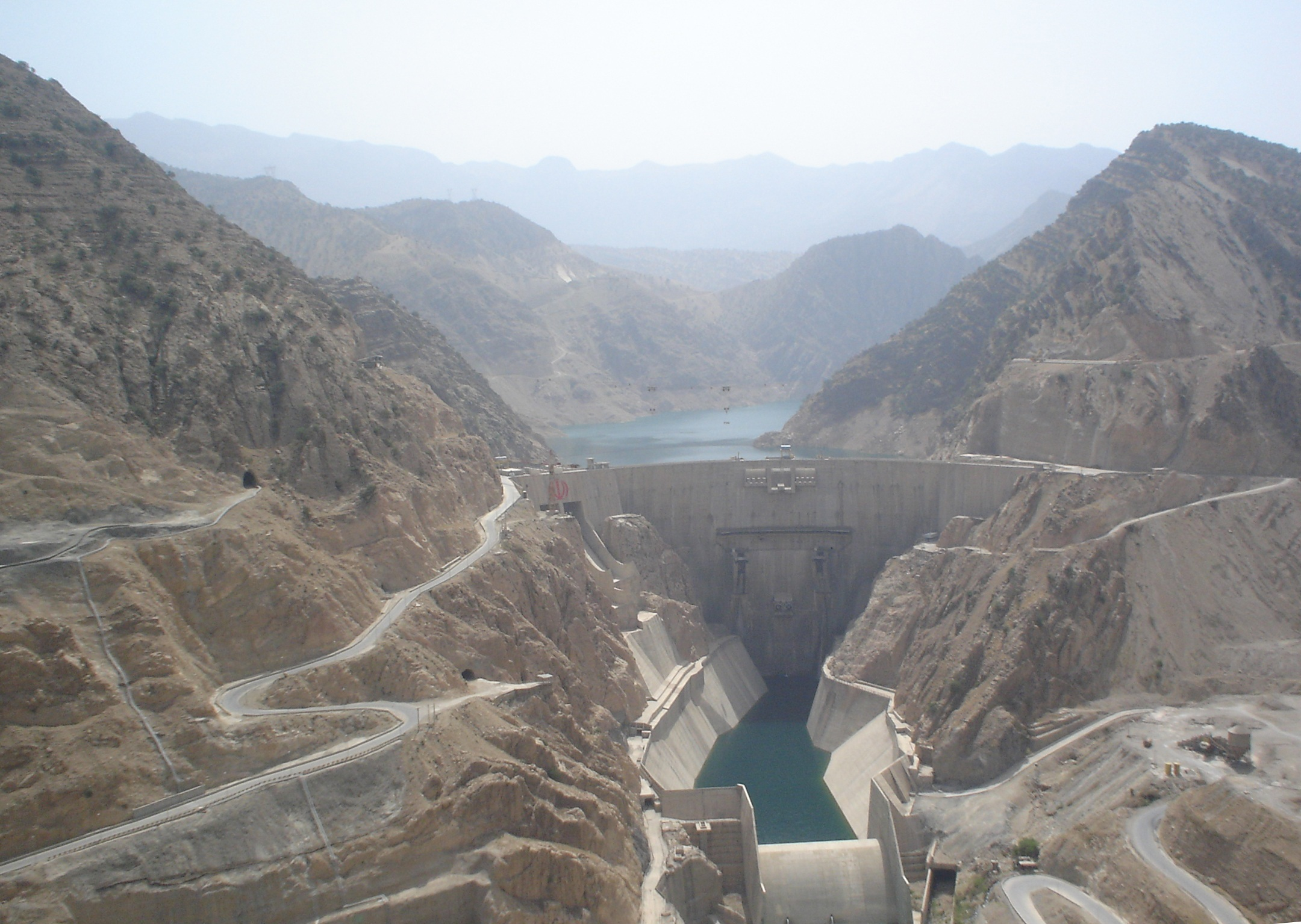 Karun-3 Dam, Khuzestan Province, Iran.